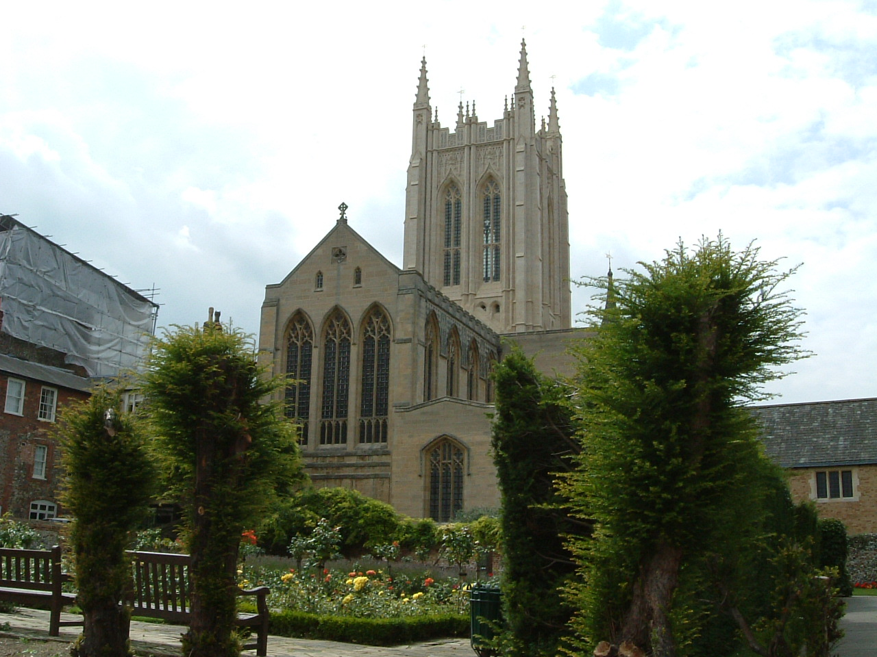 I took this picture myself.